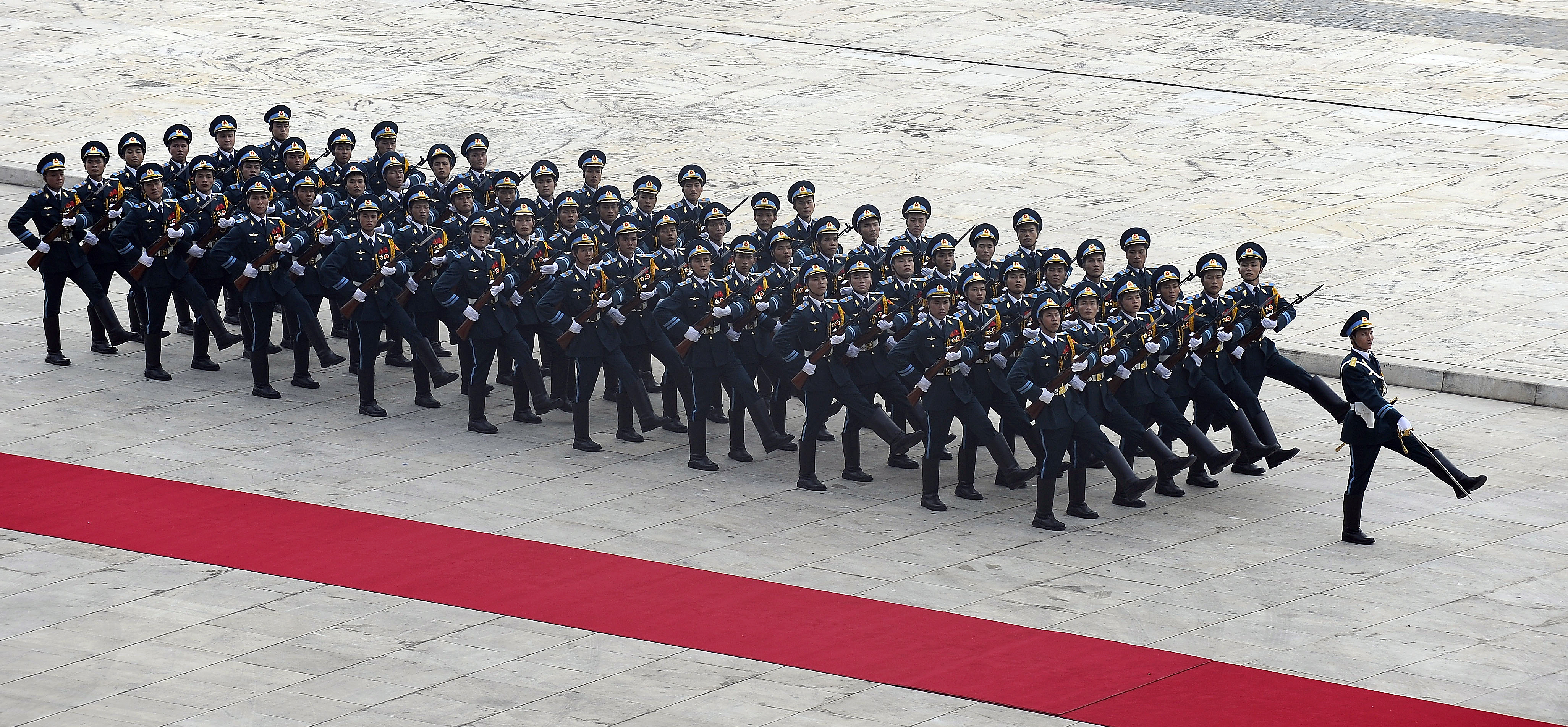 Members of the Vietnamese Guard of Honor conduct a troop review at the National Convention Center during the first “plus” defense ministers meeting of the Association of Southeast Asian Nations in Hanoi, Vietnam.